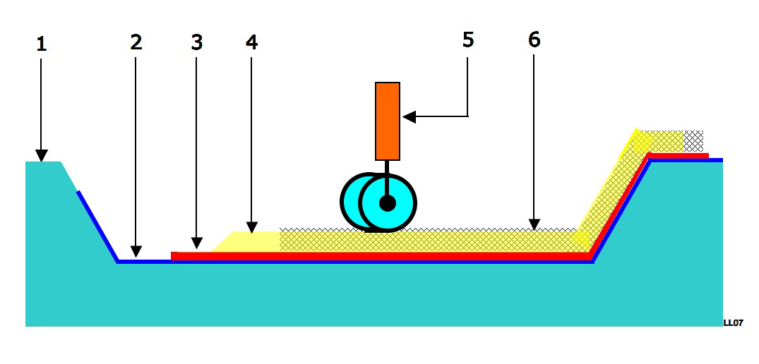 Hand lay-up moulding. Visualization of the Hand lay-up process. March 2007. Laurens van Lieshout.